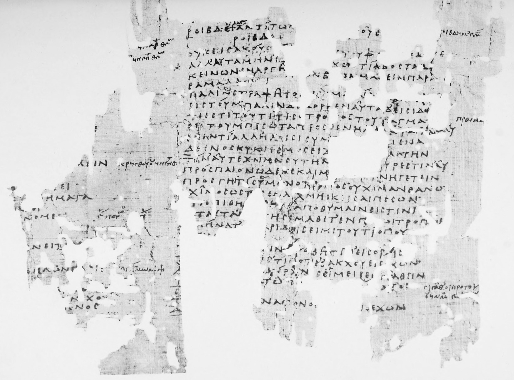 P.Oxy. IX 1174 col. iv-v: Sophocles, Ichneutae (2nd c. CE)